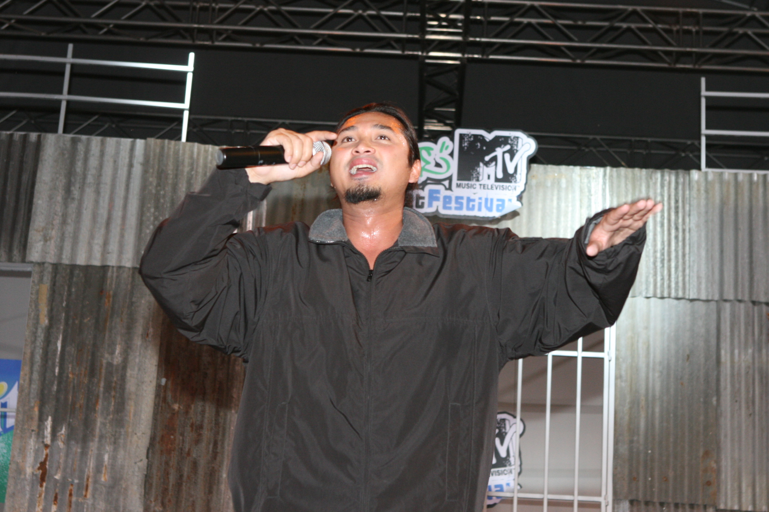 Da Jim at MTV Street Festival